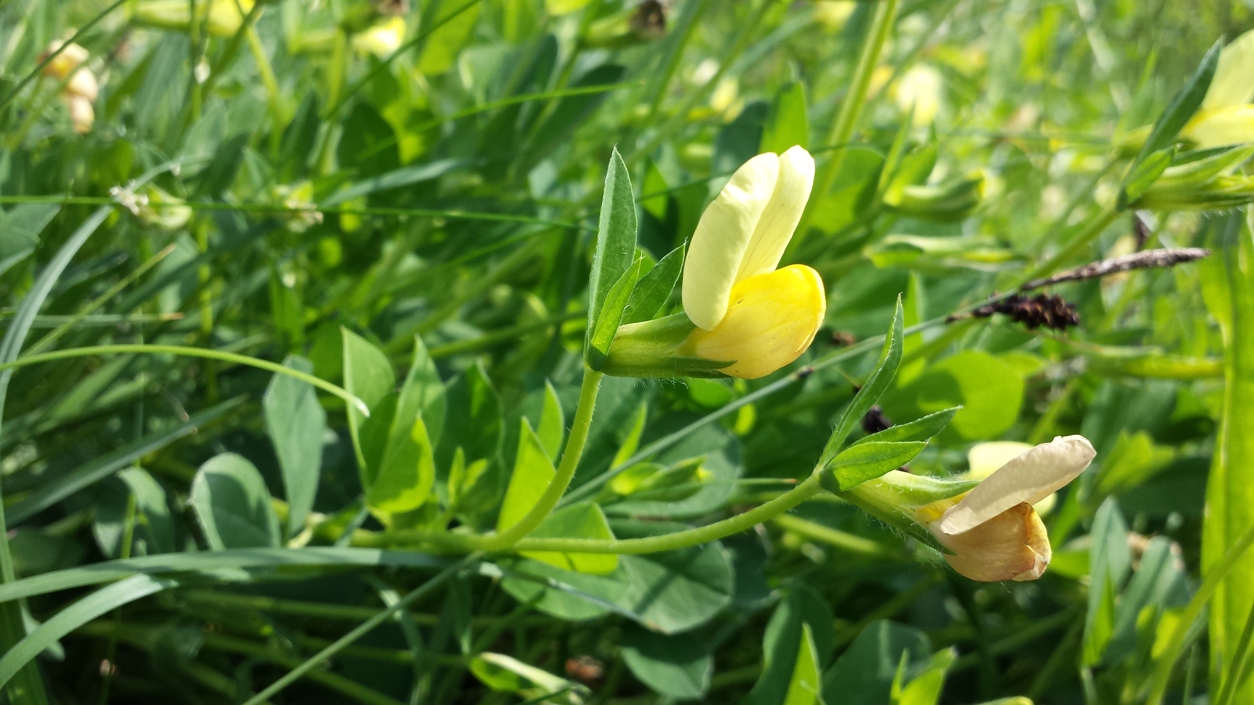 Habitus with flowers Taxon: Lotus maritimus (sensu Fischer et al. EfÖLS 2008) Location: lakeshore of Irissees within Donaupark, Vienna-Donaustadt - ca. 160 m a.s.l. Habitat: wet meadows beside lakeshore